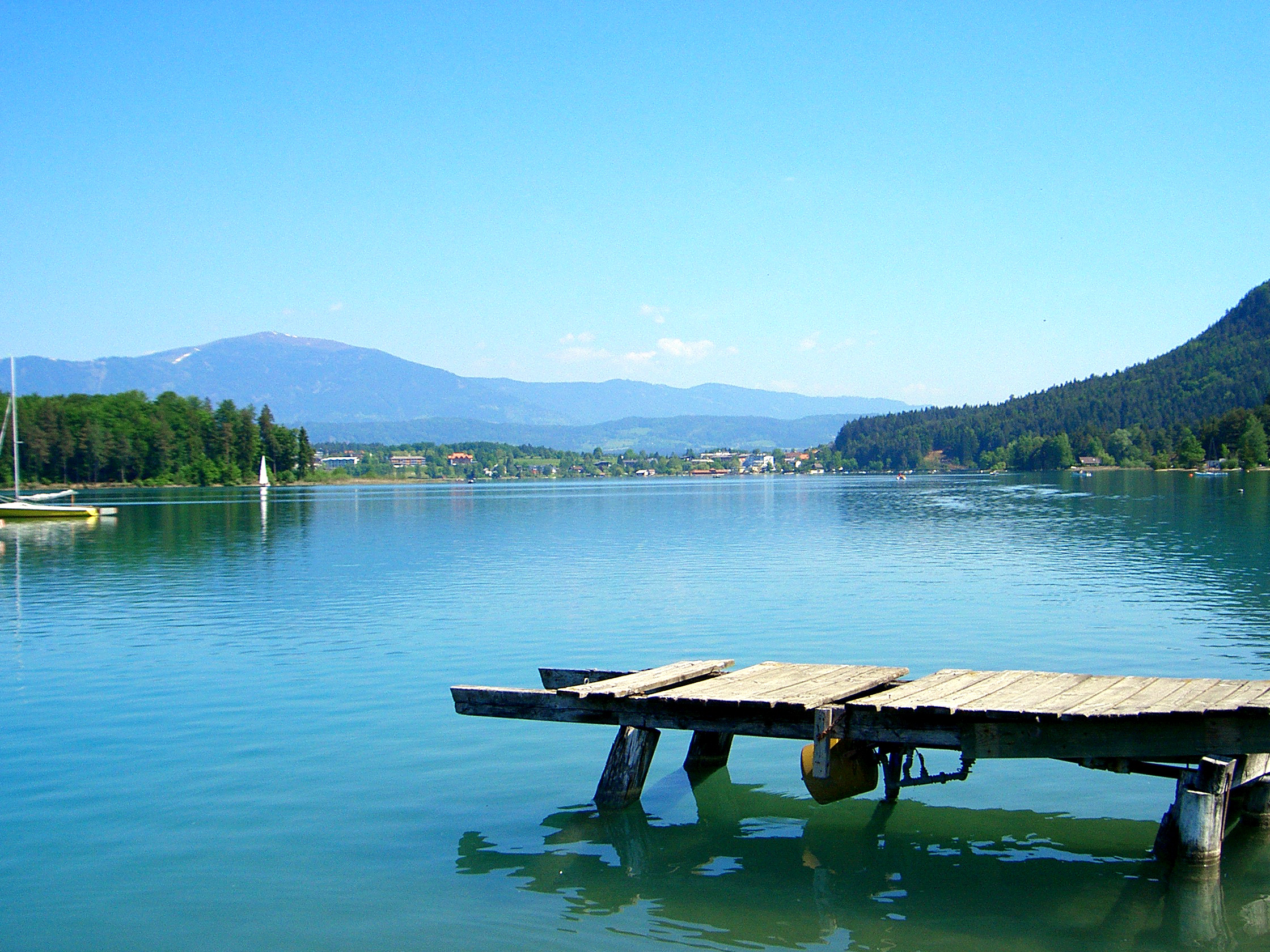 Faaker See in Austria